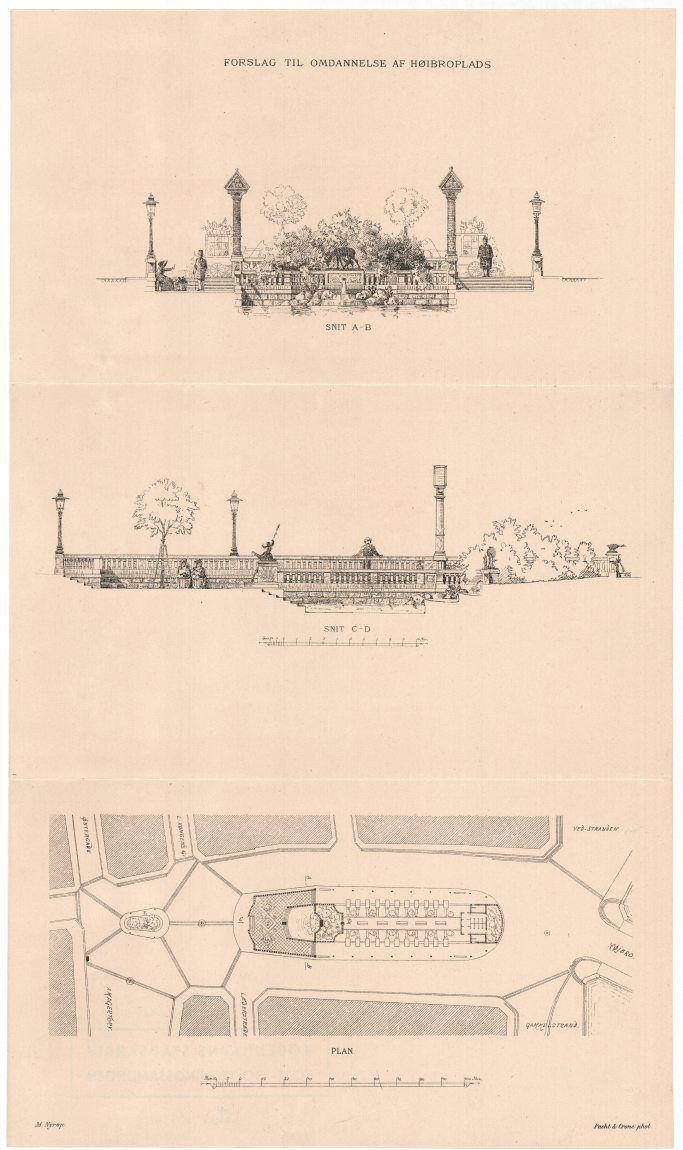 Unrealized Martin Nyrop proposal for a new Højbro Plads in Copenhagen, Denmark